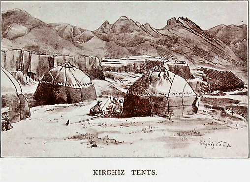 This image has been taken from the 1914 book mentioned above by E. G. Kemp